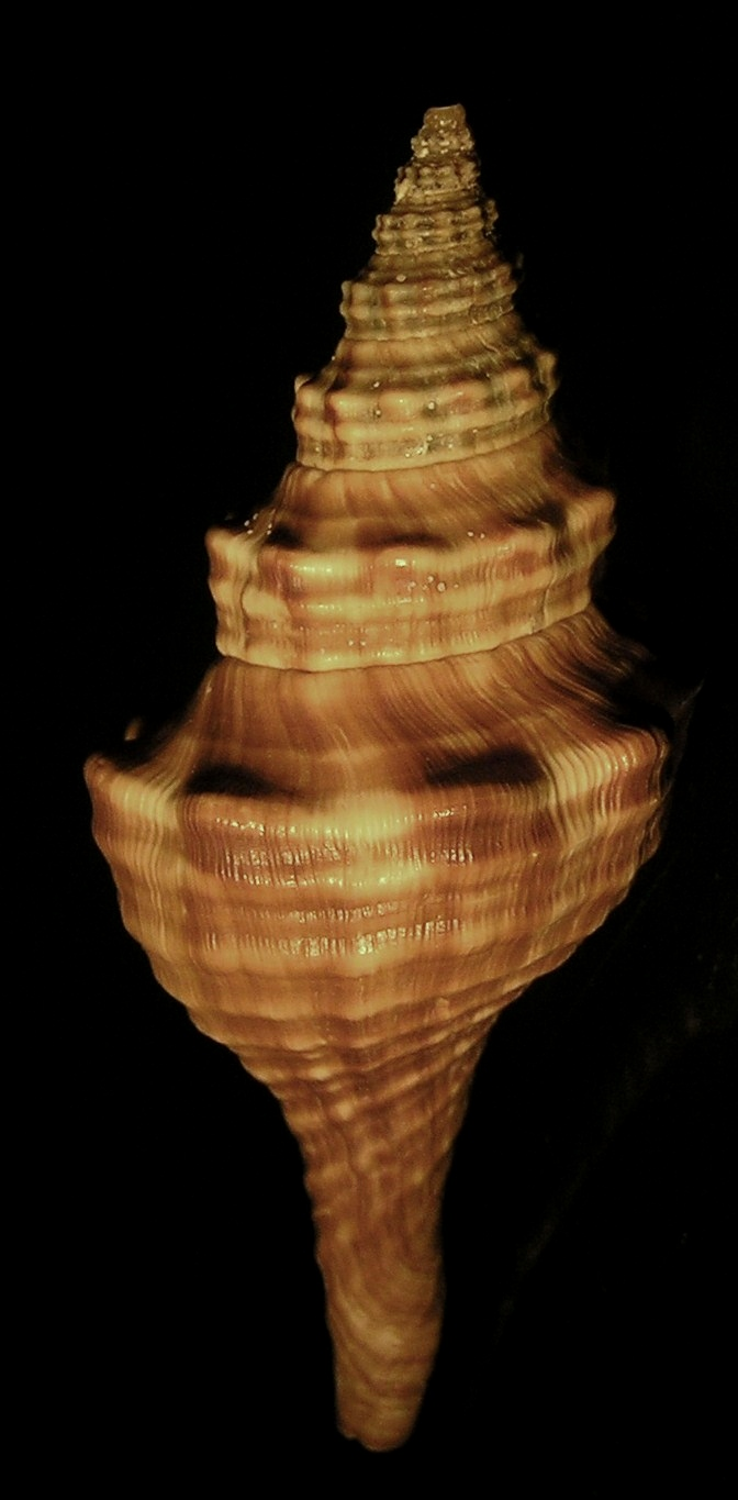 Fusinus ocelliferus (Lamarck, 1816) , a spindle snail from the family Fasciolariidae; South Africa